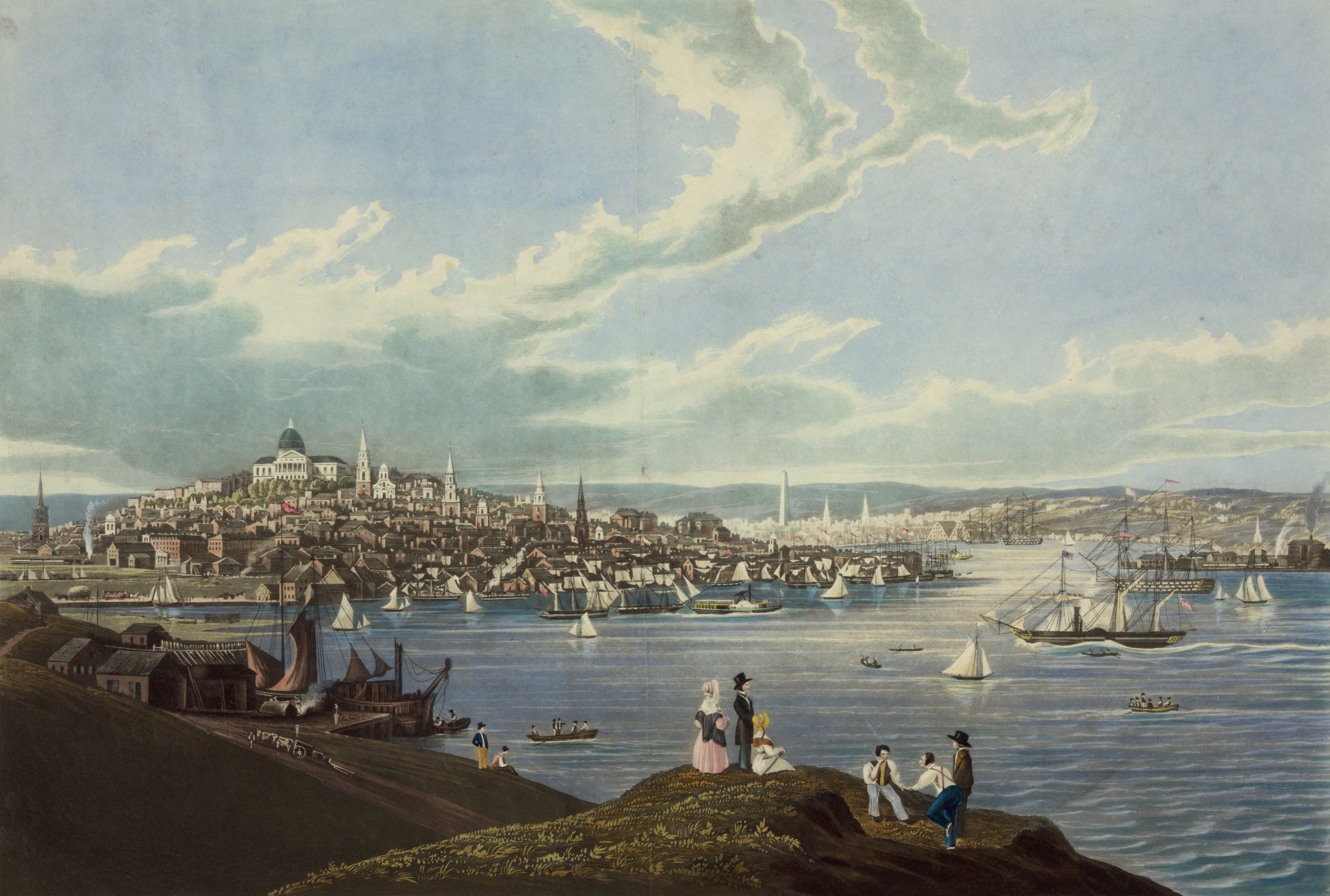 View of the city of Boston from Dorchester heights / painted & engraved by Robt. Havell ; coloured by Havell & Spearing. Print shows a distant view of Boston with ships in the harbor, the "Worcester Rail Road" on the left, the "Lowell Rail Road" on the right, and the Bunker Hill monument in the middle background. Aquatint, color, C size. New York : Published by Robt. Havell, 172 Fulton St., c1841 (Printed by W. Neale)